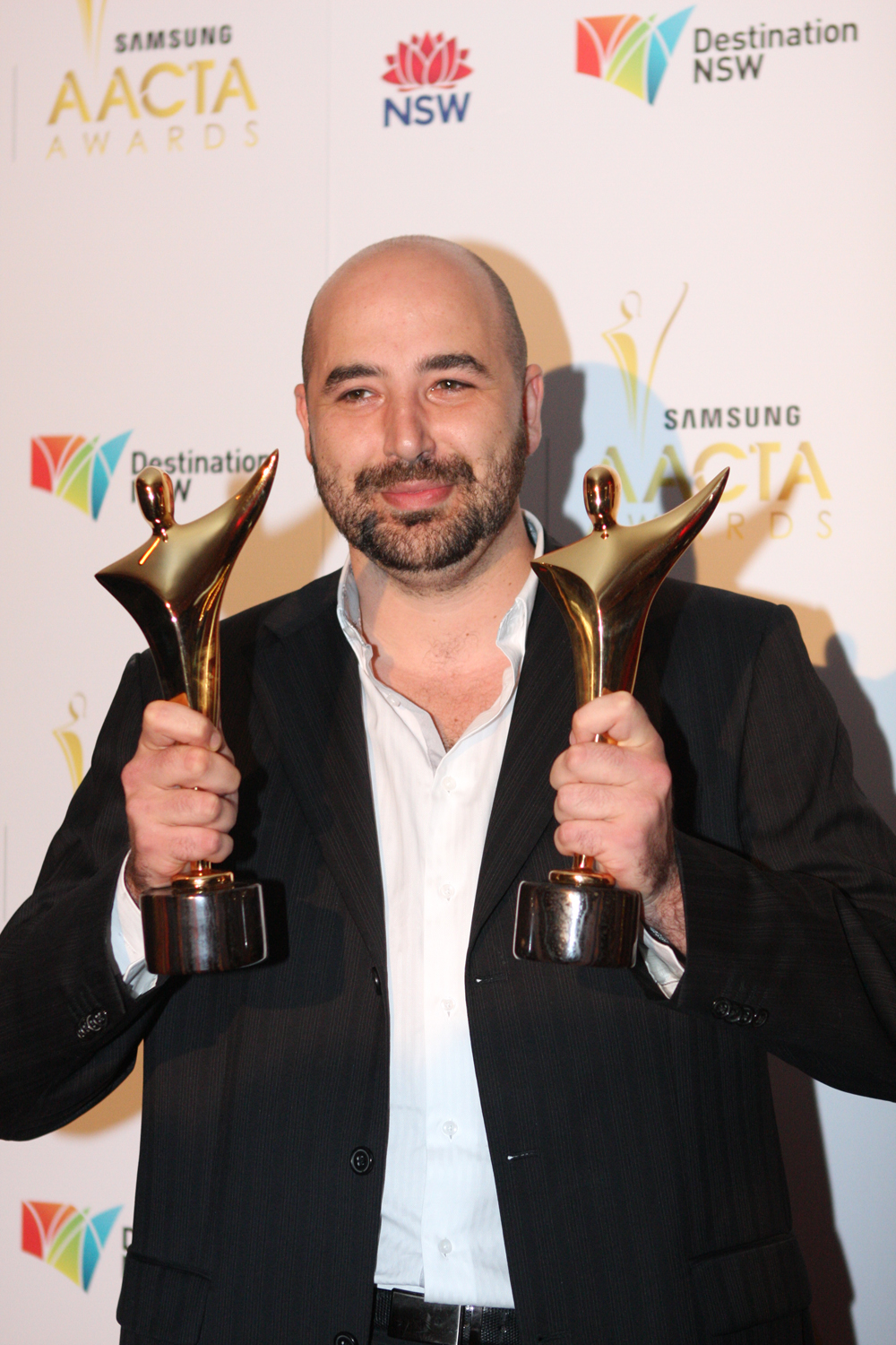 Anthony Maras winner of best screenplay in a short film,he also won best short fiction film, AACTA awards lunch